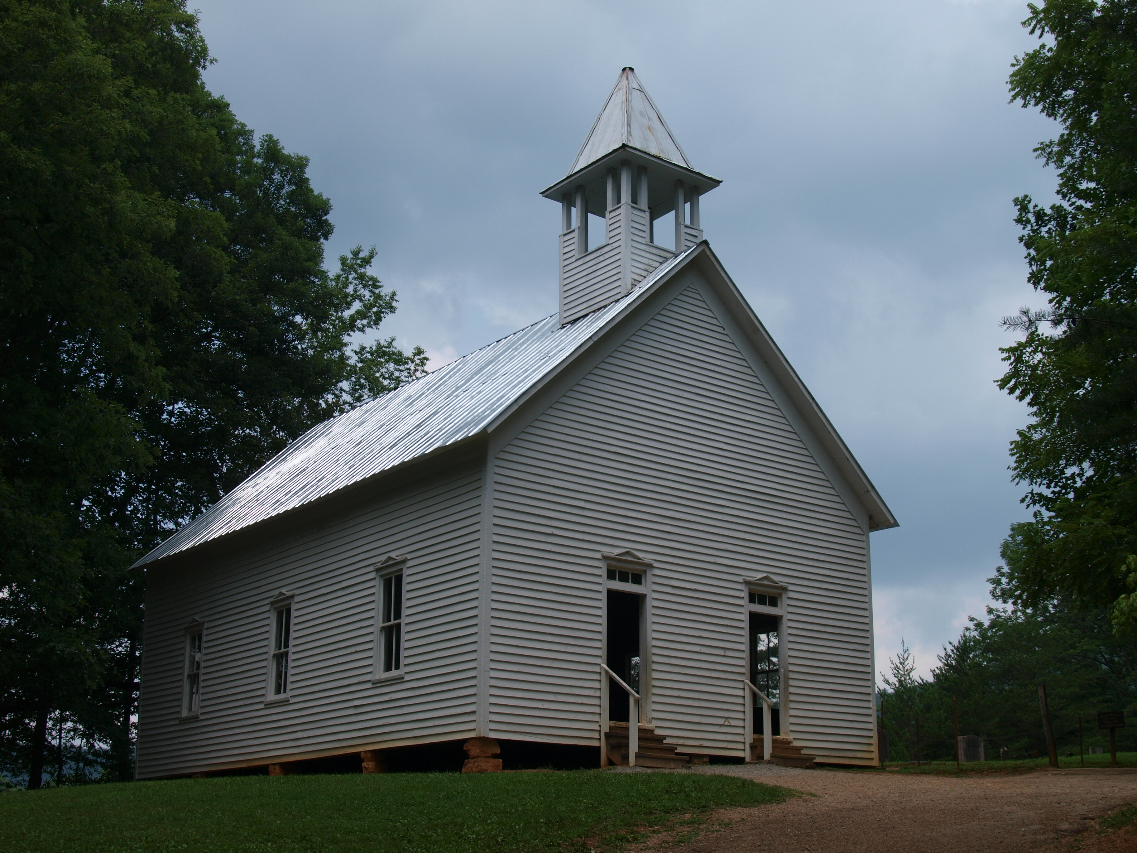 Methodist Church at Cades Cove, Great Smoky Mountains National Park (Tennessee, US)